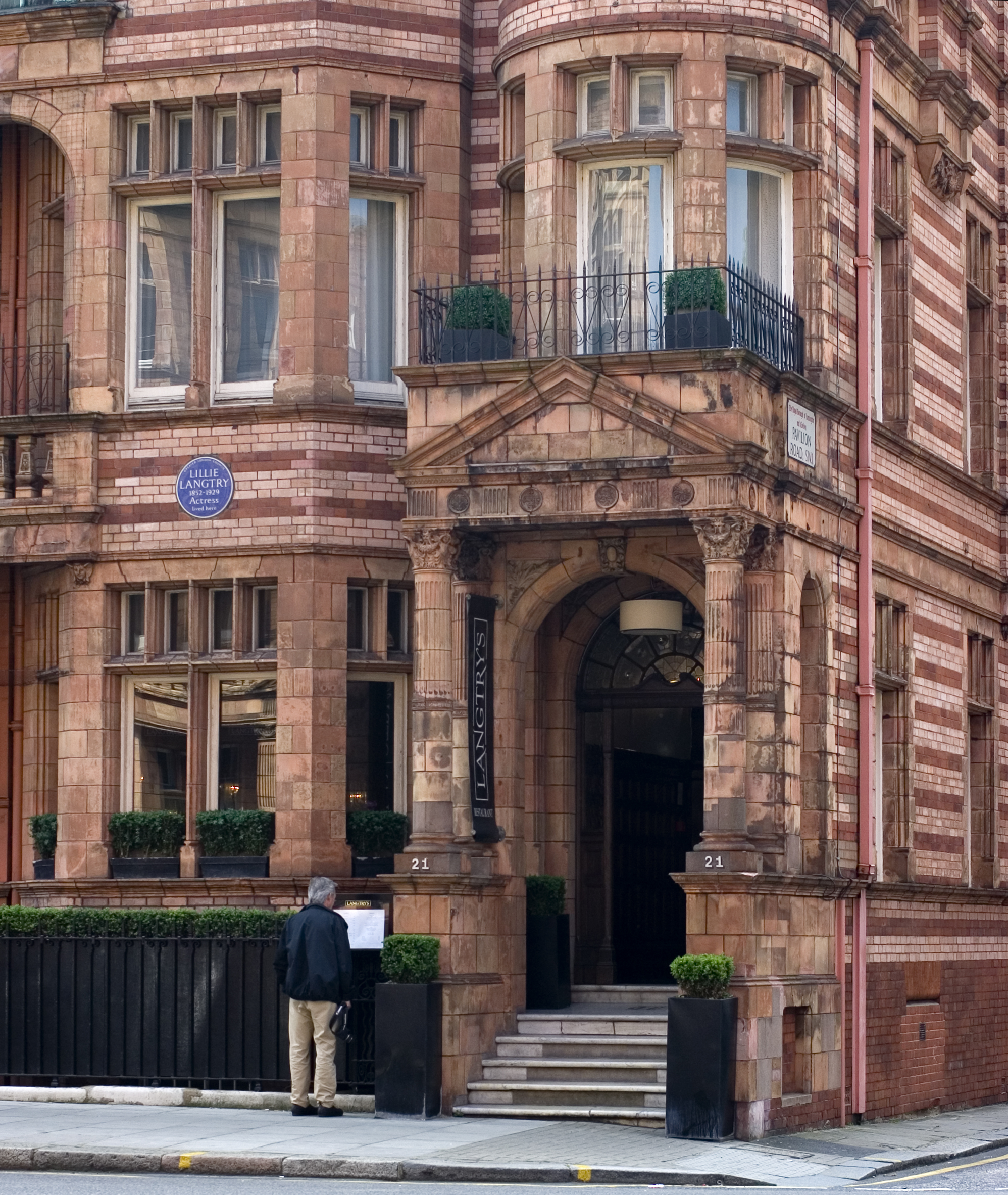 Outside of 21 Pont Street London, once the home of the actress Lillie Langtry and now part of the Cadogan Hotel